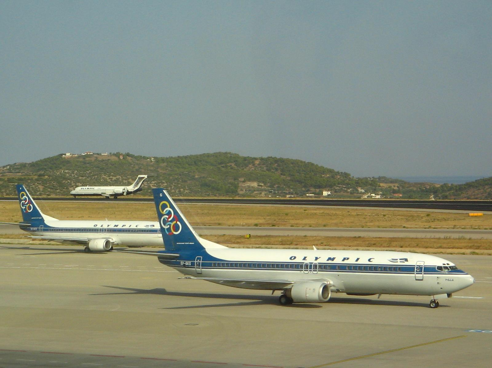 Two Boeing 737-400 and a Boeing 717-200 of Olympic Airlines at Athens international airport